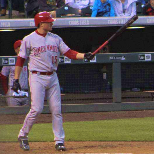 Jordan Pacheco